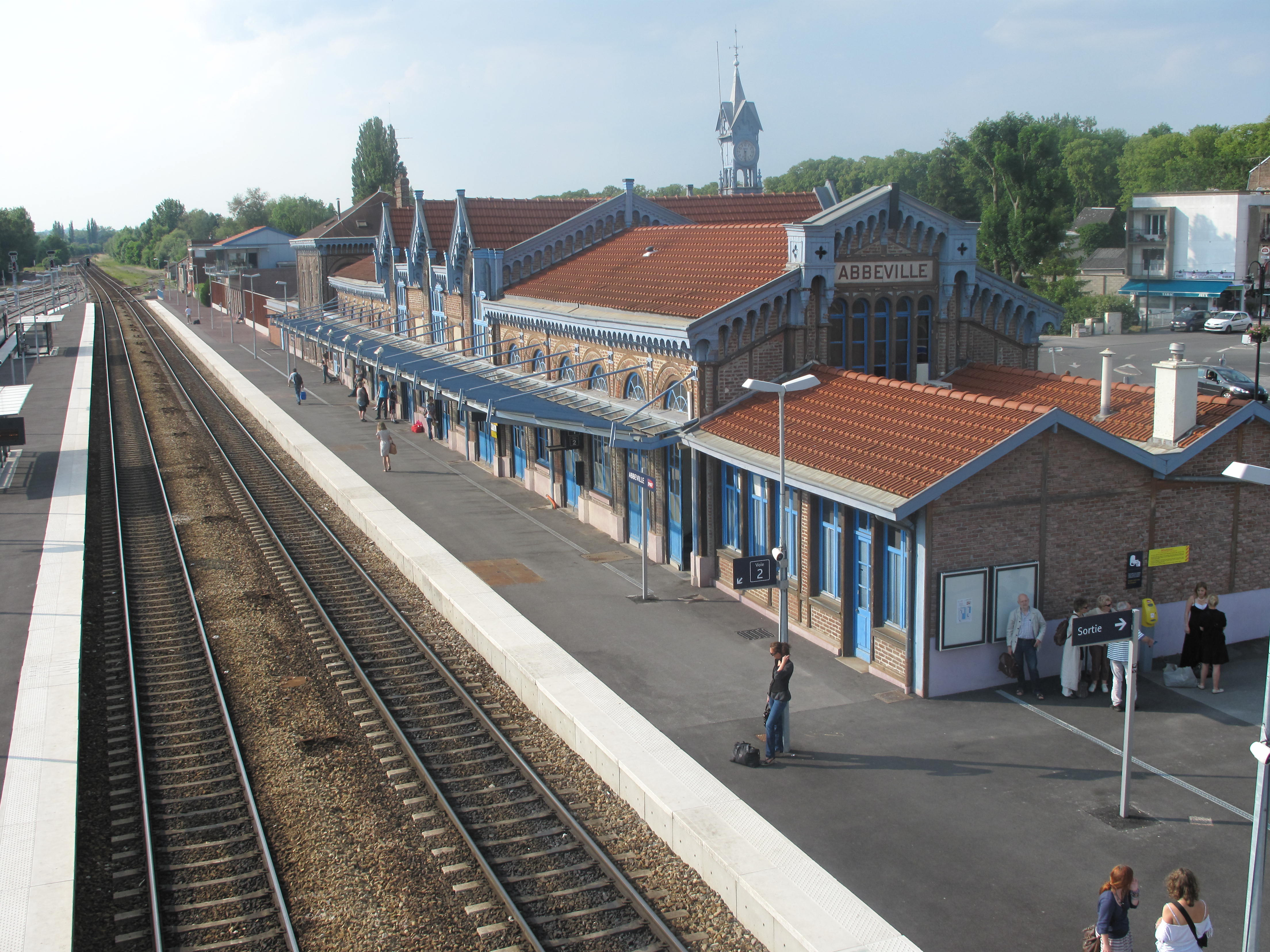 Train station of Abbeville, Somme, France